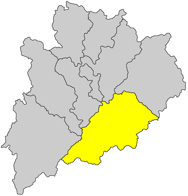 Location of Fengshun County, Meizhou